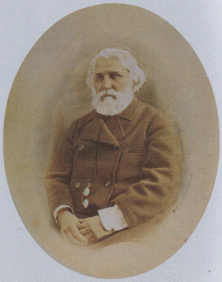 Photo of Ivan Turgenev by M.M.Panov in Moscow (1867)